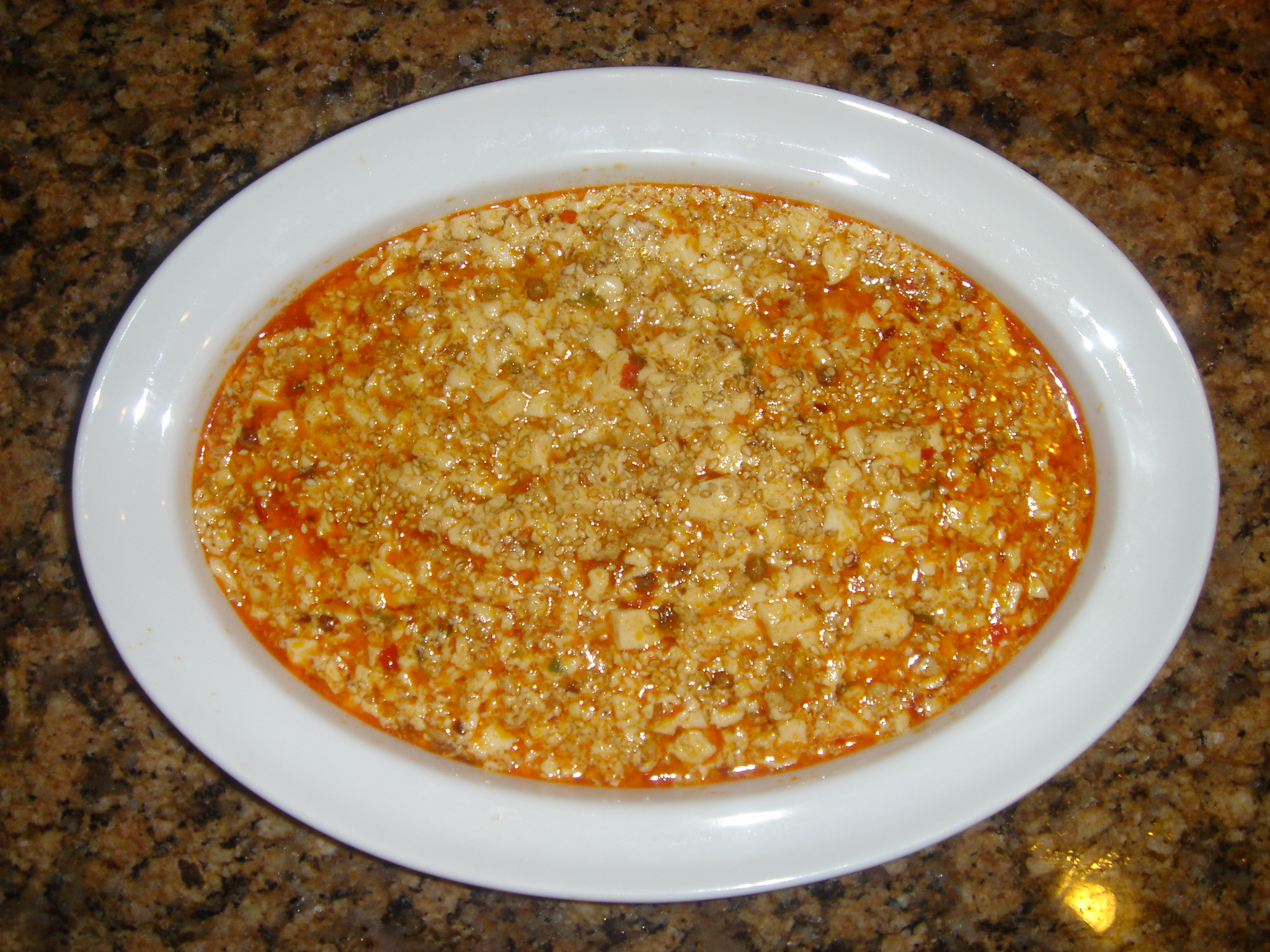 It is a picture of a well made dish of mapodofu a sezchuan dish contanining tofu pork and sezchuan peppercorns.